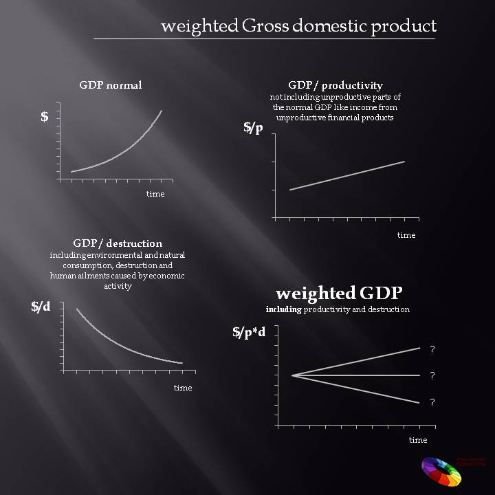 simple explanation of a weighted, or adjusted GDP